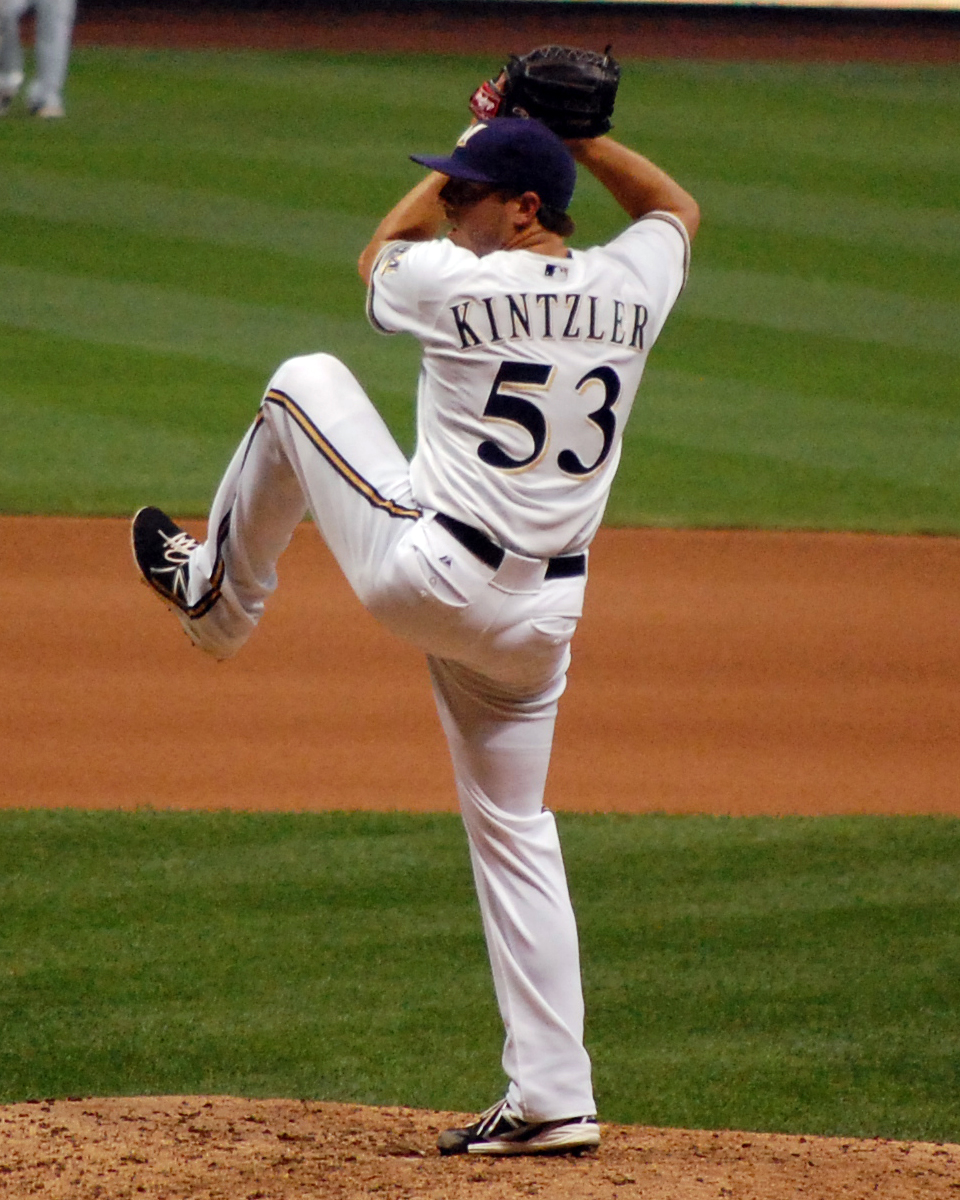 Brandon Kintzler pitching for the Milwaukee Brewers against the St. Louis Cardinals at Miller Park in Milwaukee, Wisconsin in 2013.